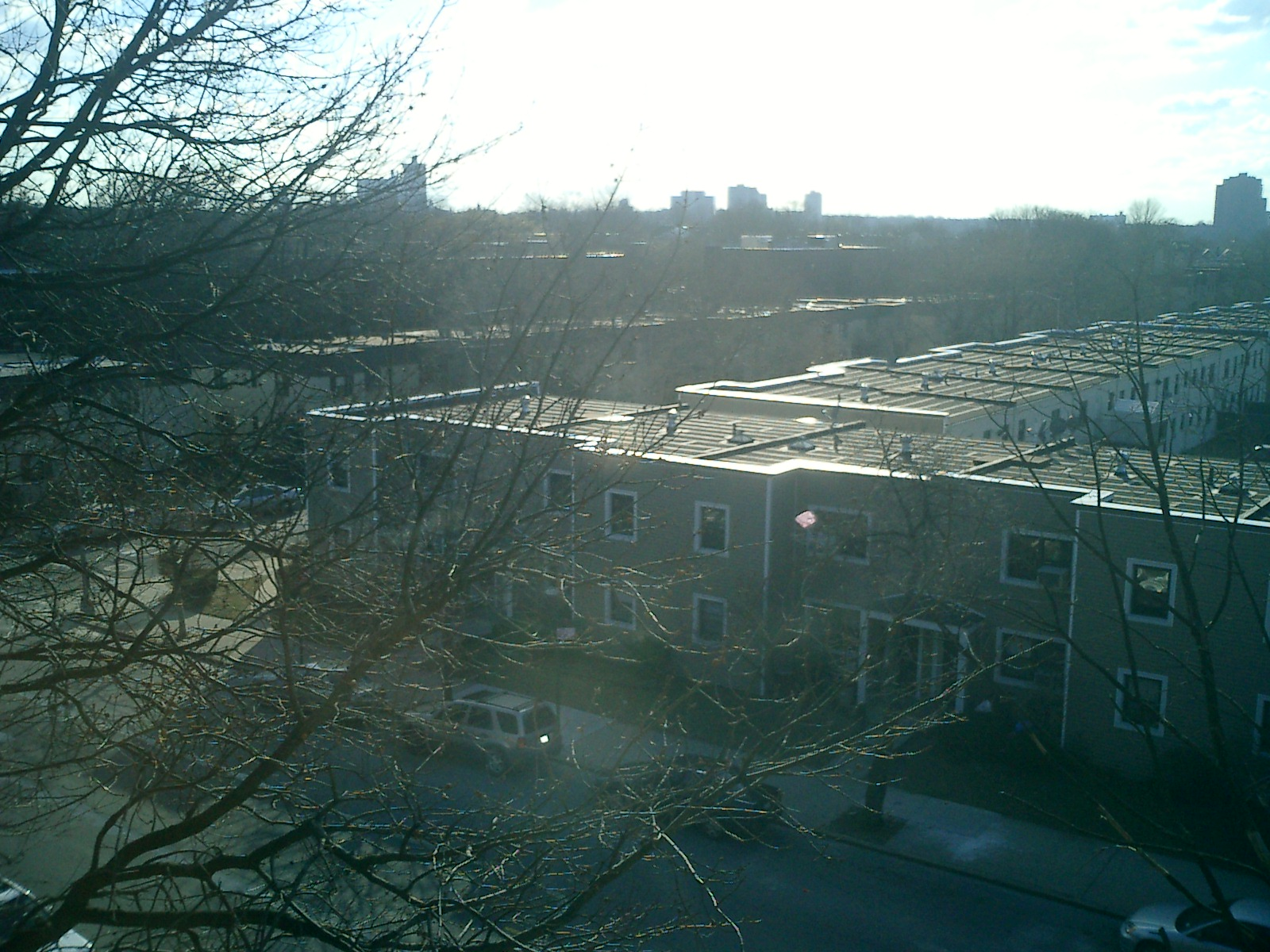 72 Avenue and 150 Street corner in Kew Gardens Hills, NY.